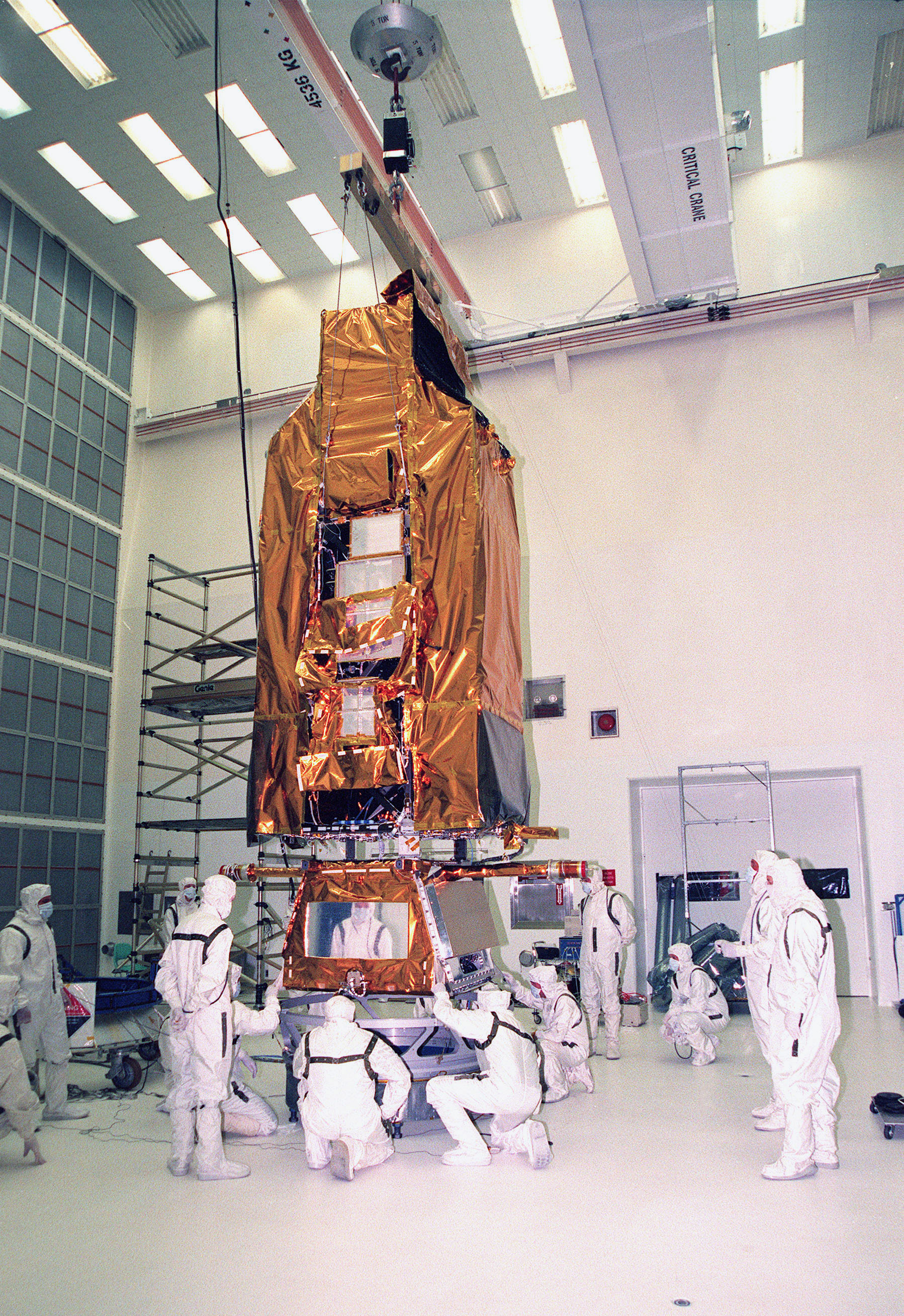 Suspended by a crane in Hangar AE, Cape Canaveral Air Station, NASA's Far Ultraviolet Spectroscopic Explorer (FUSE) satellite is lowered onto a circular Payload Attach Fitting (PAF). FUSE is undergoing a functional test of its systems, plus installation of flight batteries and solar arrays. Developed by The Johns Hopkins University under contract to Goddard Space Flight Center, Greenbelt, Md., FUSE will investigate the origin and evolution of the lightest elements in the universe - hydrogen and deuterium. In addition, the FUSE satellite will examine the forces and process involved in the evolution of the galaxies, stars and planetary systems by investigating light in the far ultraviolet portion of the electromagnetic spectrum. FUSE is scheduled to be launched May 27 aboard a Boeing Delta II rocket at Launch Complex 17.